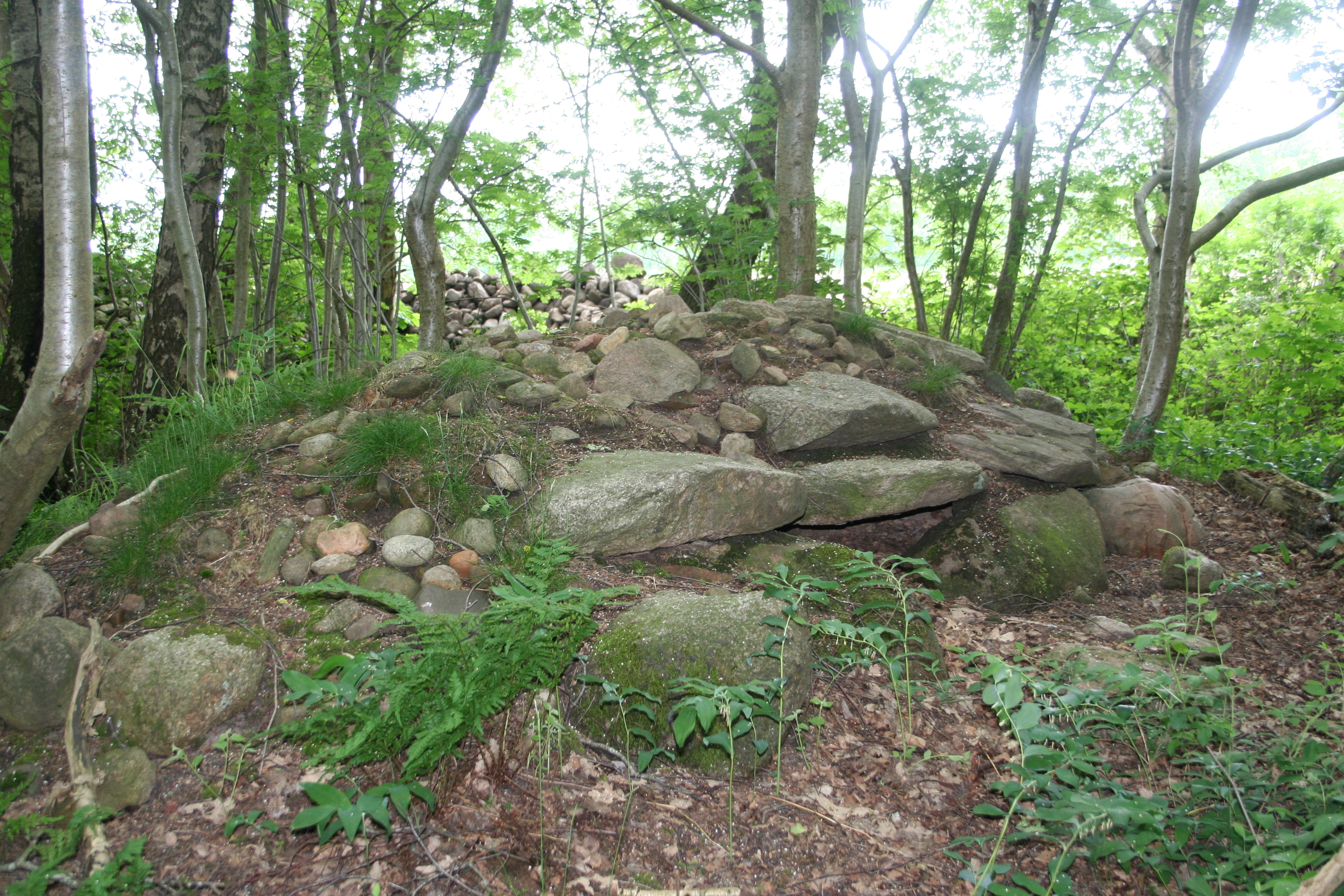 Cist grave at Meckelstedt